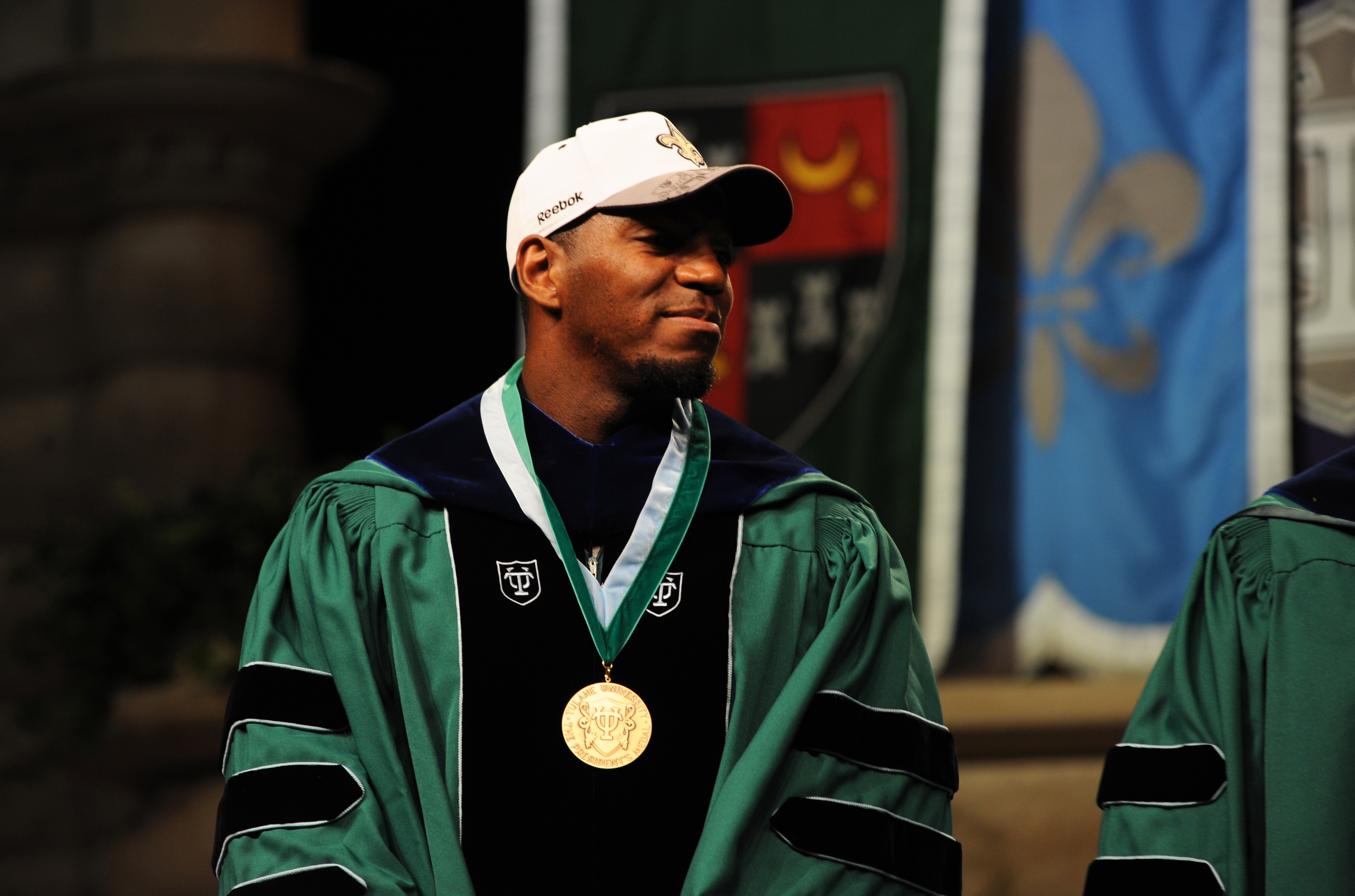 Jonathan Vilma of the New Orleans Saints at the 2010 commencement ceremony at Tulane University.